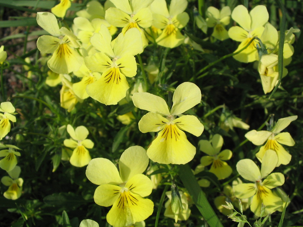 Viola Calaminaria -- Liege Belgium 06may2006 -- author : Christophe Cattelain (xofc)